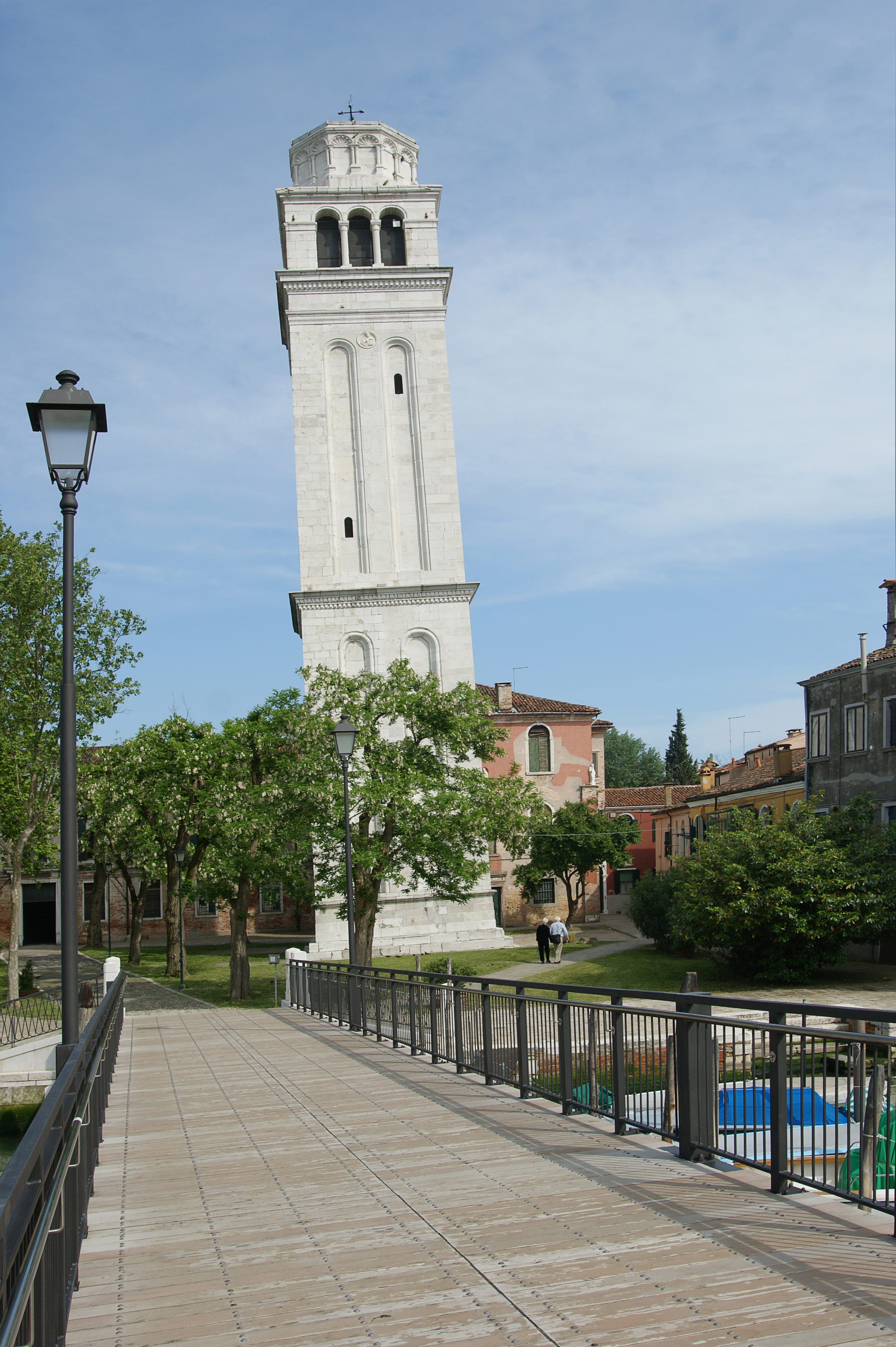 Church of San Pietro di Castello, Venice; bell tower by architect Mauro Codussi.